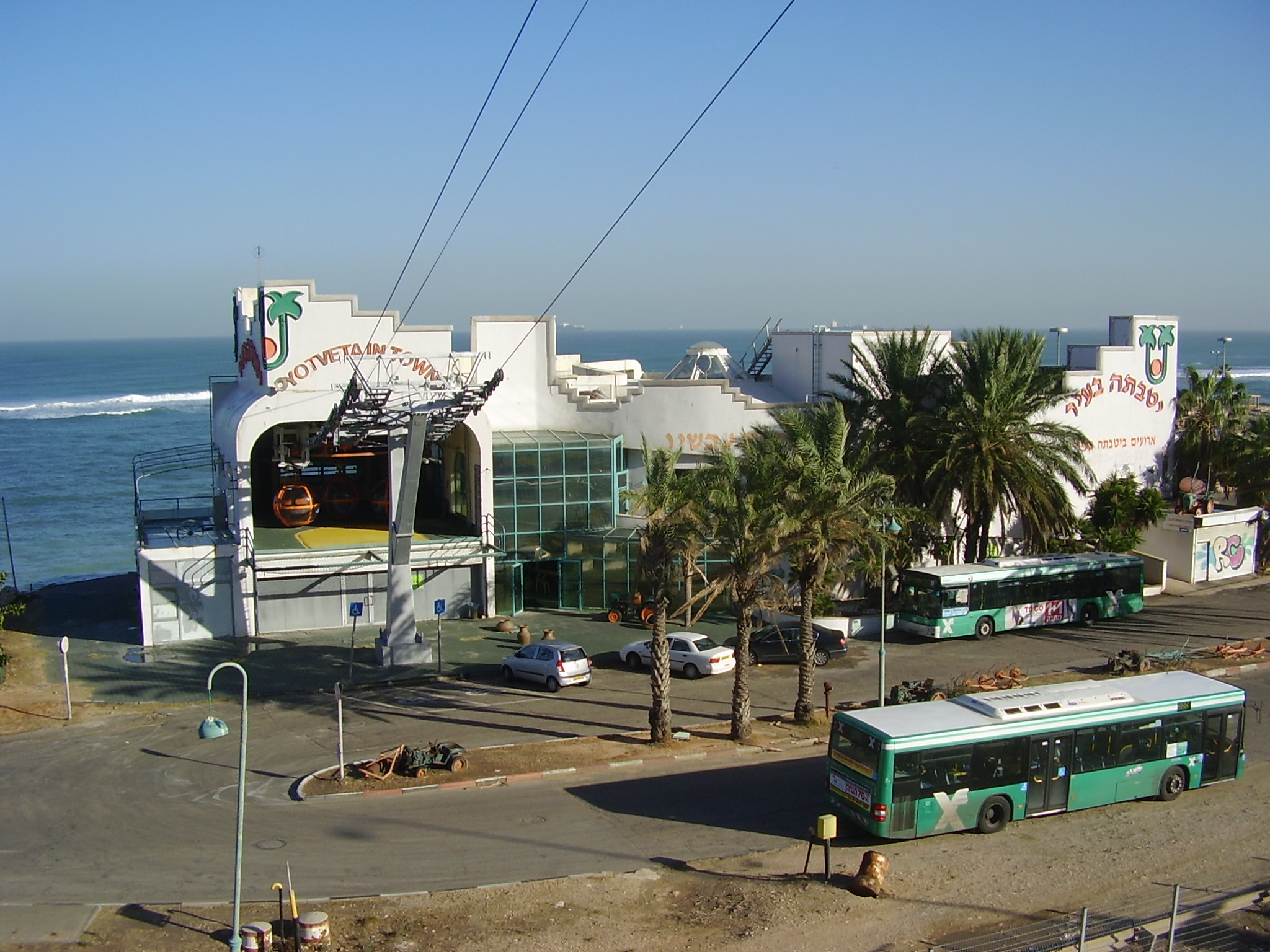 haifa cableway